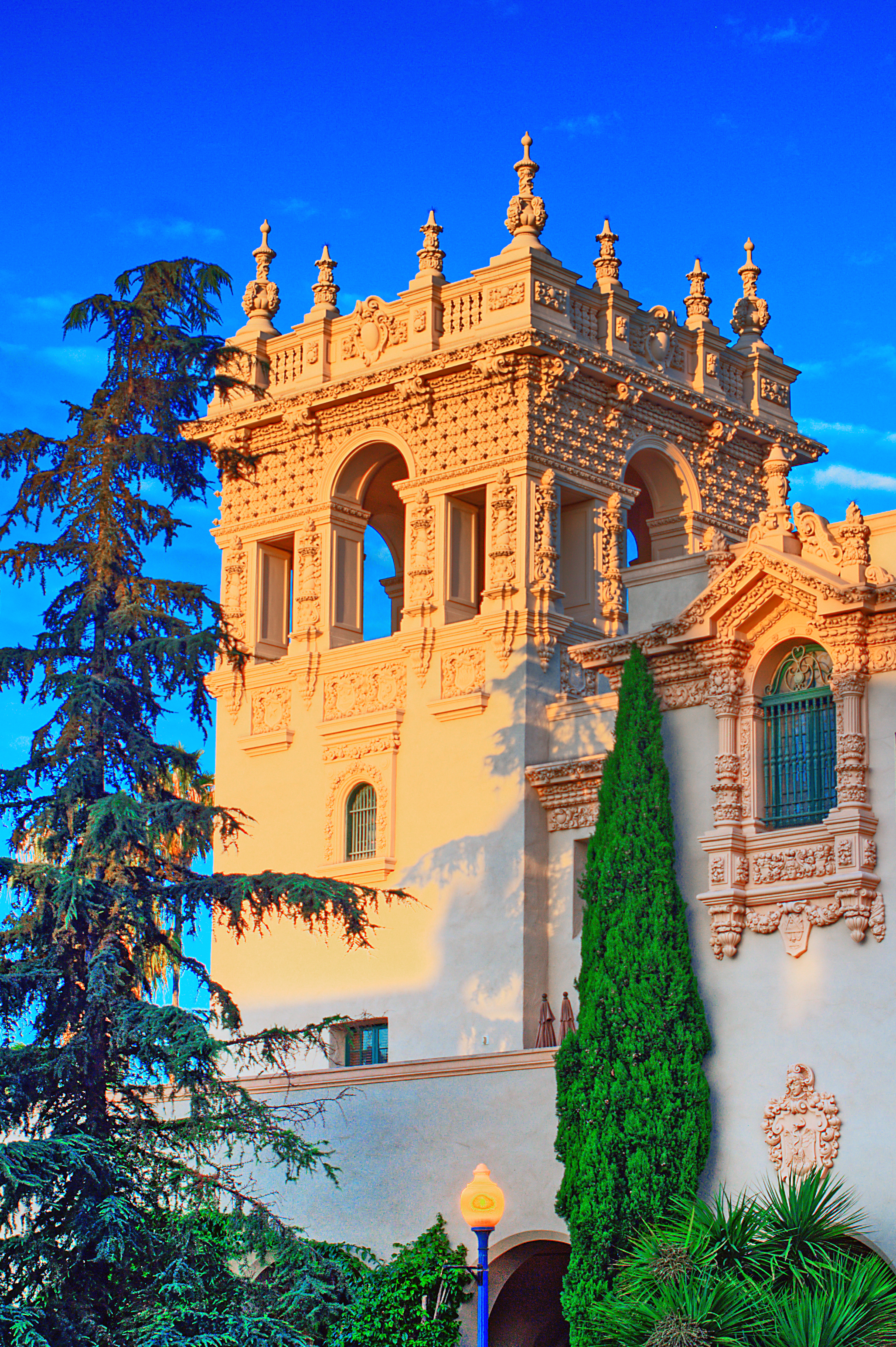 A tower of the House of Hospitality in Balboa Park, originally designed by Bertram Goodhue for the 1915 Panama-California Exposition. It is in the Spanish Colonial Revival architecture style, with highly ornamented Spanish Baroque detailing. Sometimes referred to it as Spanish Revival or Spanish Mission Style. Most of the Exposition structures were designed by Bertram Goodhue and Carleton Winslow, and built, for the Panama-California Exposition held in 1915. The exposition commemorated the opening of the Panama Canal. "According to what I have read, it is actually a unique style of architecture that combines elements of some of the great structures found in Spain, as well as influences from some of the beautiful cathedrals found in Mexico.